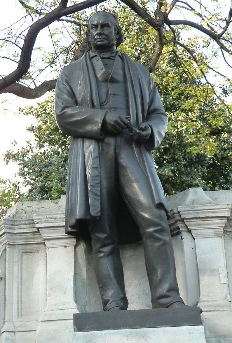 Isambard Kingdom Brunel - Bronze - Temple - London - England - Photo by and copyright ´User:Tagishsimon - 2nd May 2004